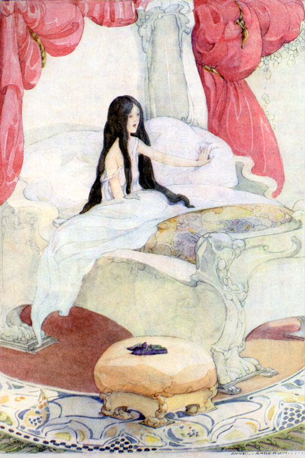 "The Old Woman in the Woods" by Anne Anderson. Open the tree yoder, and inside you will find a bed...